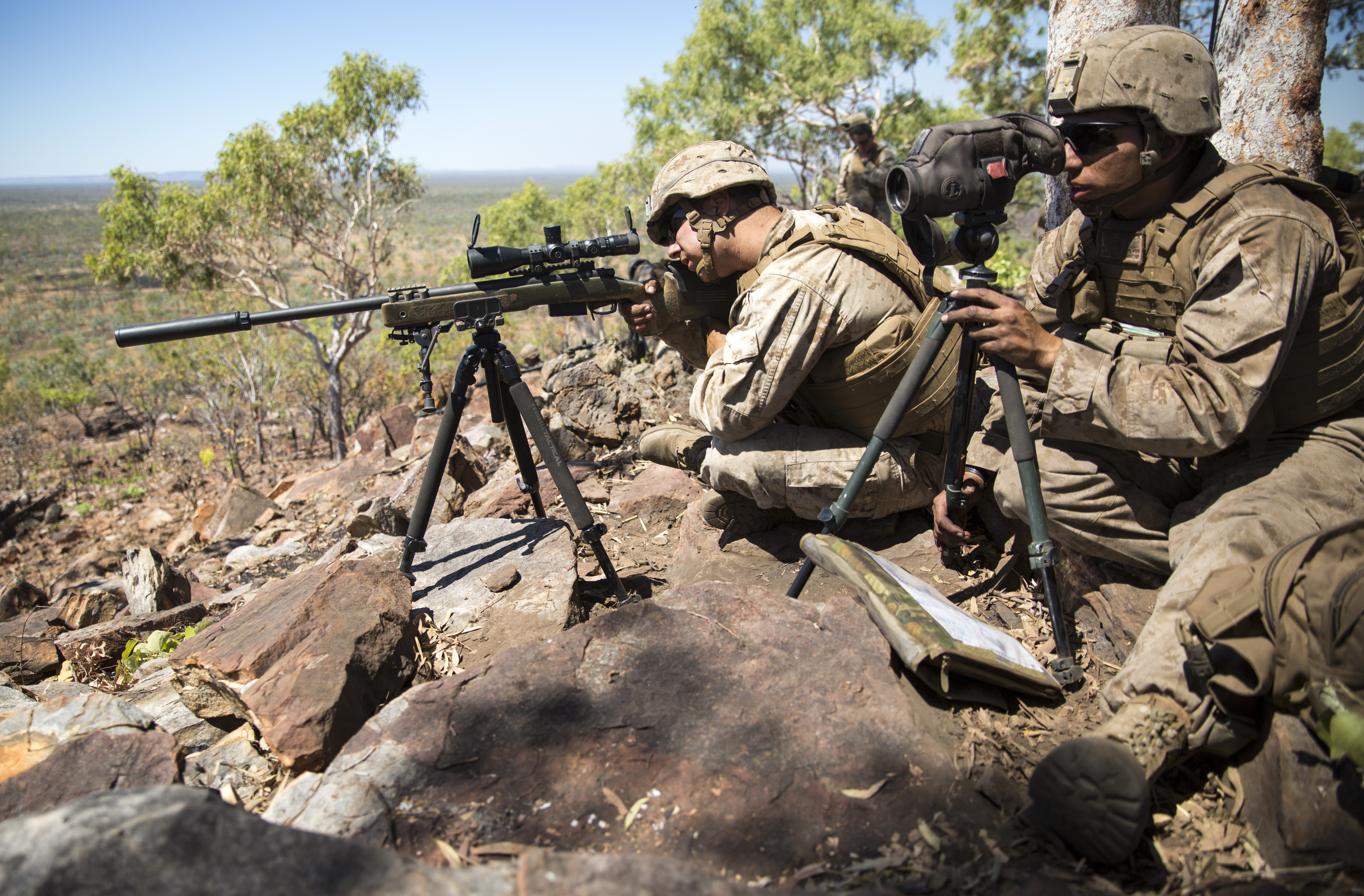 U.S. Marine Corps Cpl. Cruz A. Nunez, right, a scout sniper with Scout Sniper Platoon, 1st Battalion, 5th Marine Regiment, Marine Rotational Force-Darwin, spots targets for Cpl. Jarrod L. Henry, a mortarman with the platoon, as Henry engages targets with an M40A5 sniper rifle at Bradshaw Field Training Area in Northern Territory, Australia, Aug. 18, 2014, during an unknown distance qualification range event as part of Koolendong 2014. Koolendong is an amphibious and live-fire exercise designed to increase interoperability between the U.S. Marine Corps and Australian Defense Force. (DoD photo by Lance Cpl. Joey S. Holeman Jr., U.S. Marine Corps/Released)